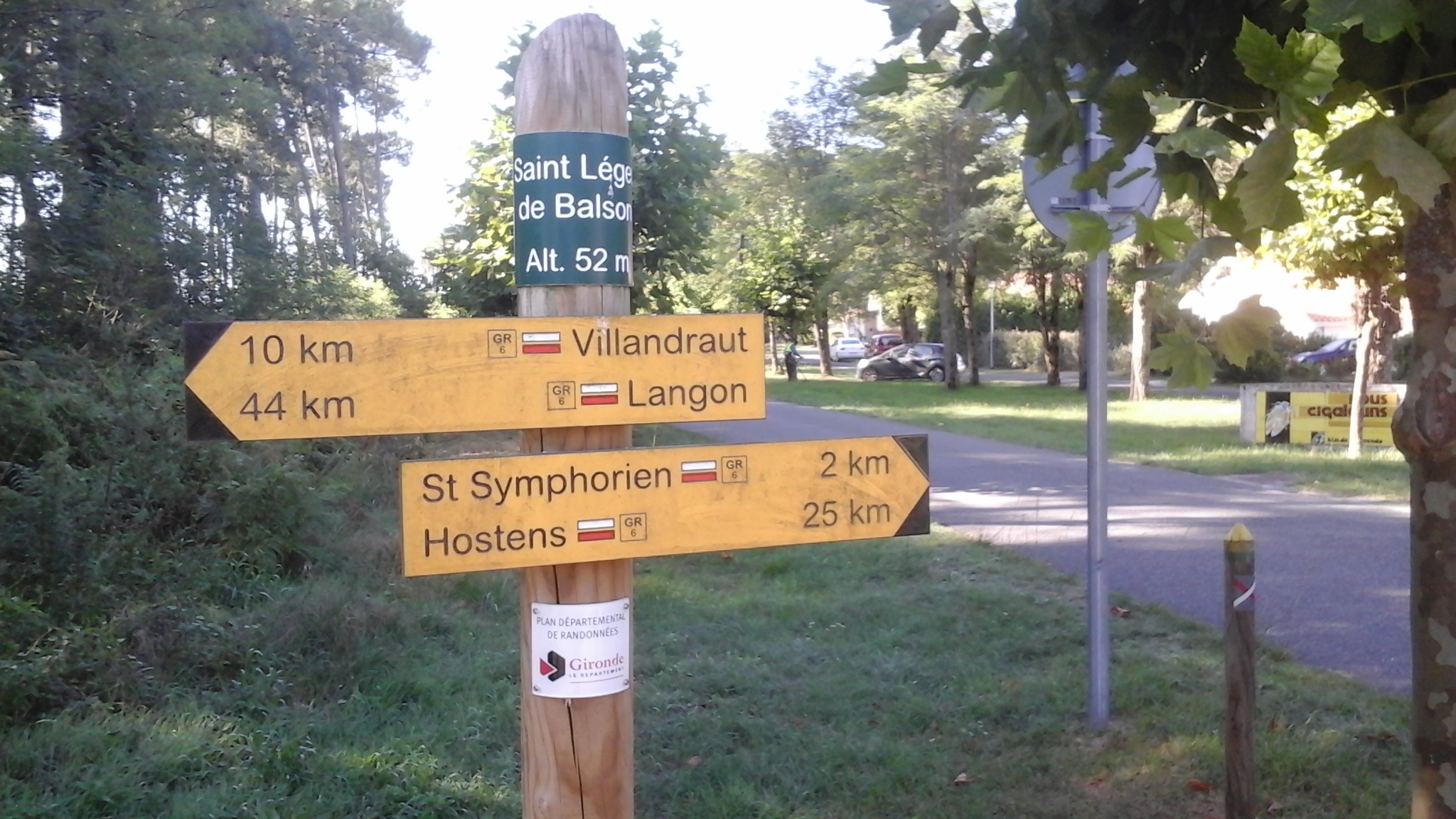 Saint Léger de Balson, Alt. 52 m; 10 Km Villandraut, 44 Km Langon; St Symphorien 2 Km, Hostens 25 Km